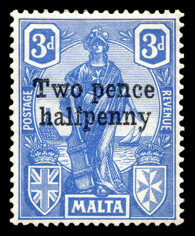 Malta 1925 Melita 2½d on 3d bright ultramarine stamp in mint condition